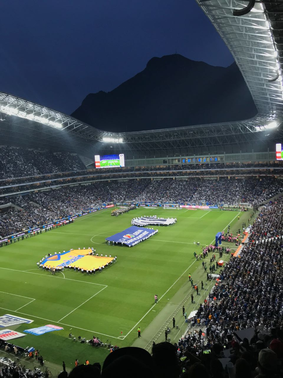 Photo of the inauguration of Mexico's Apertura 2017 Liga MX final (second leg) between Monterrey and Tigres at Estadio BBVA.